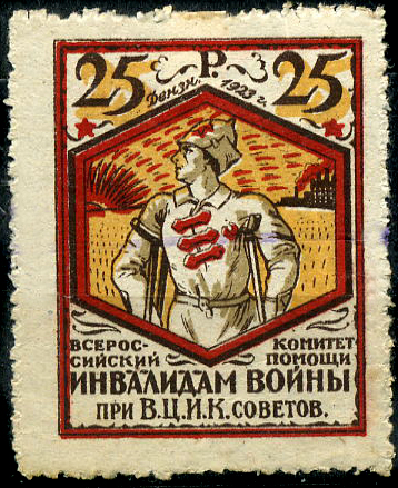 Revenue stamp of voluntary gathering of the All-Russia committee of the help to invalids of war, 1923